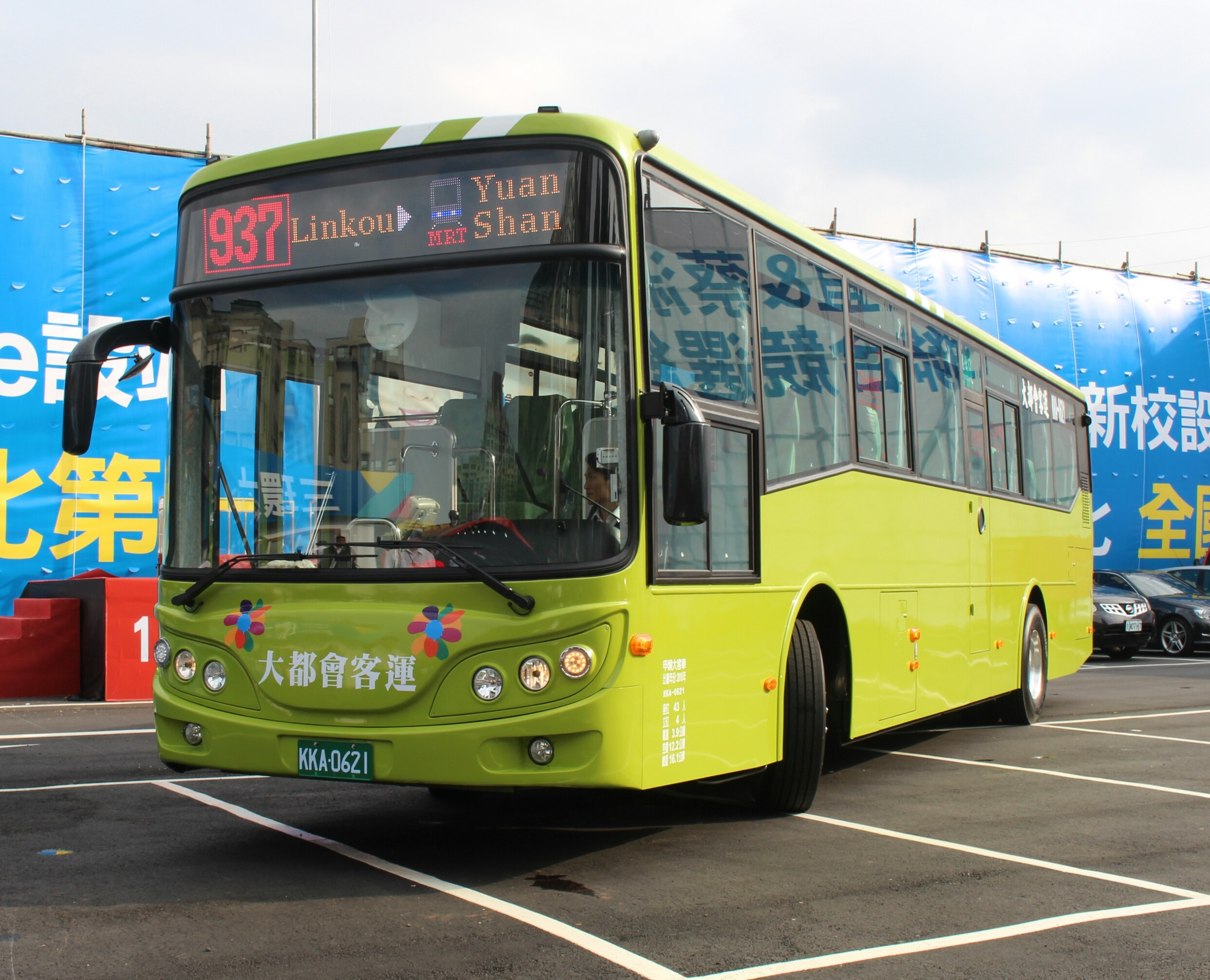 MTCBus_2018_Fuso_RM11FN2XE_KKA-0621_937